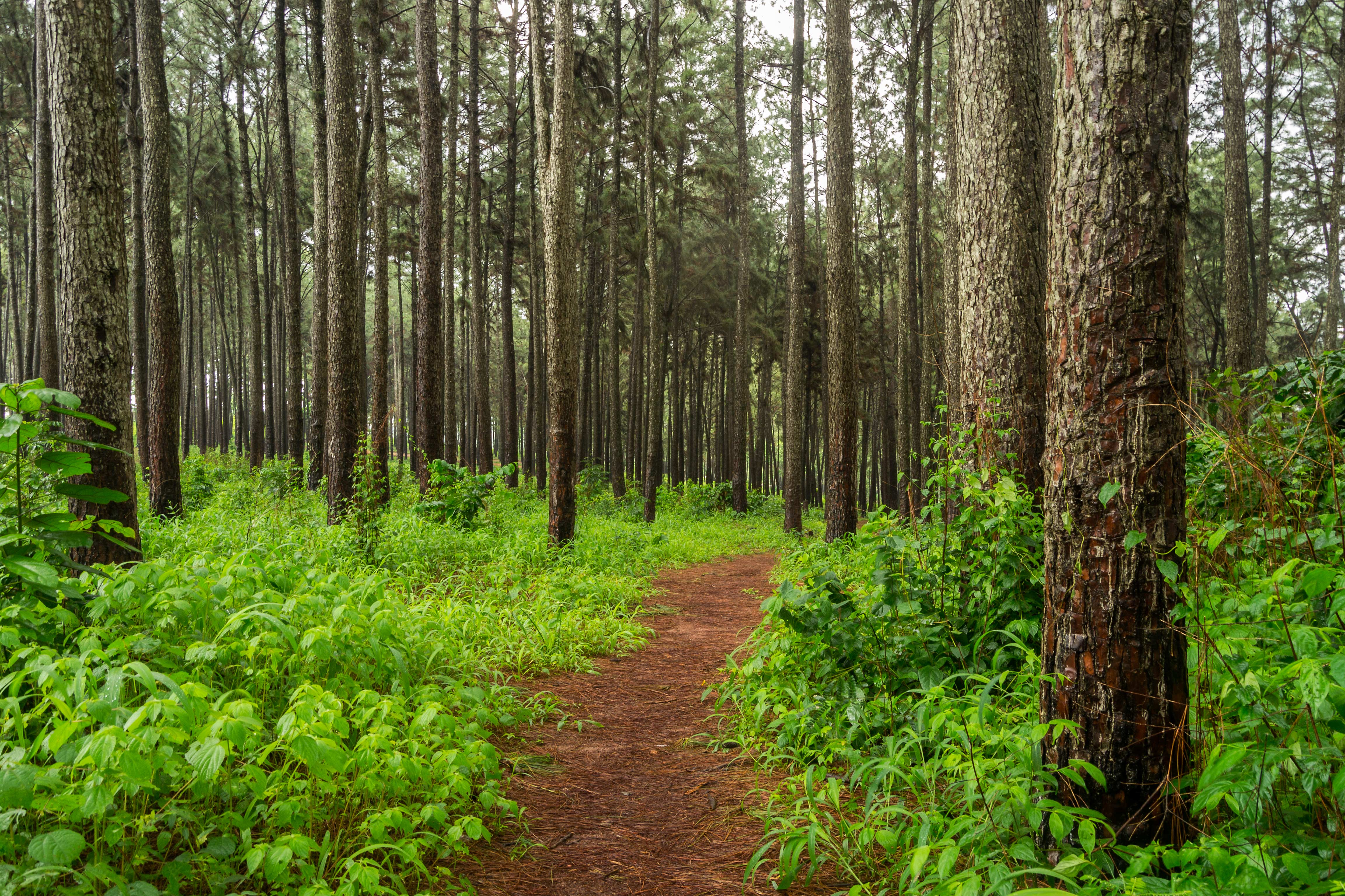 Path through a pine tree forest at Ngwo, Enugu state in Nigeria.